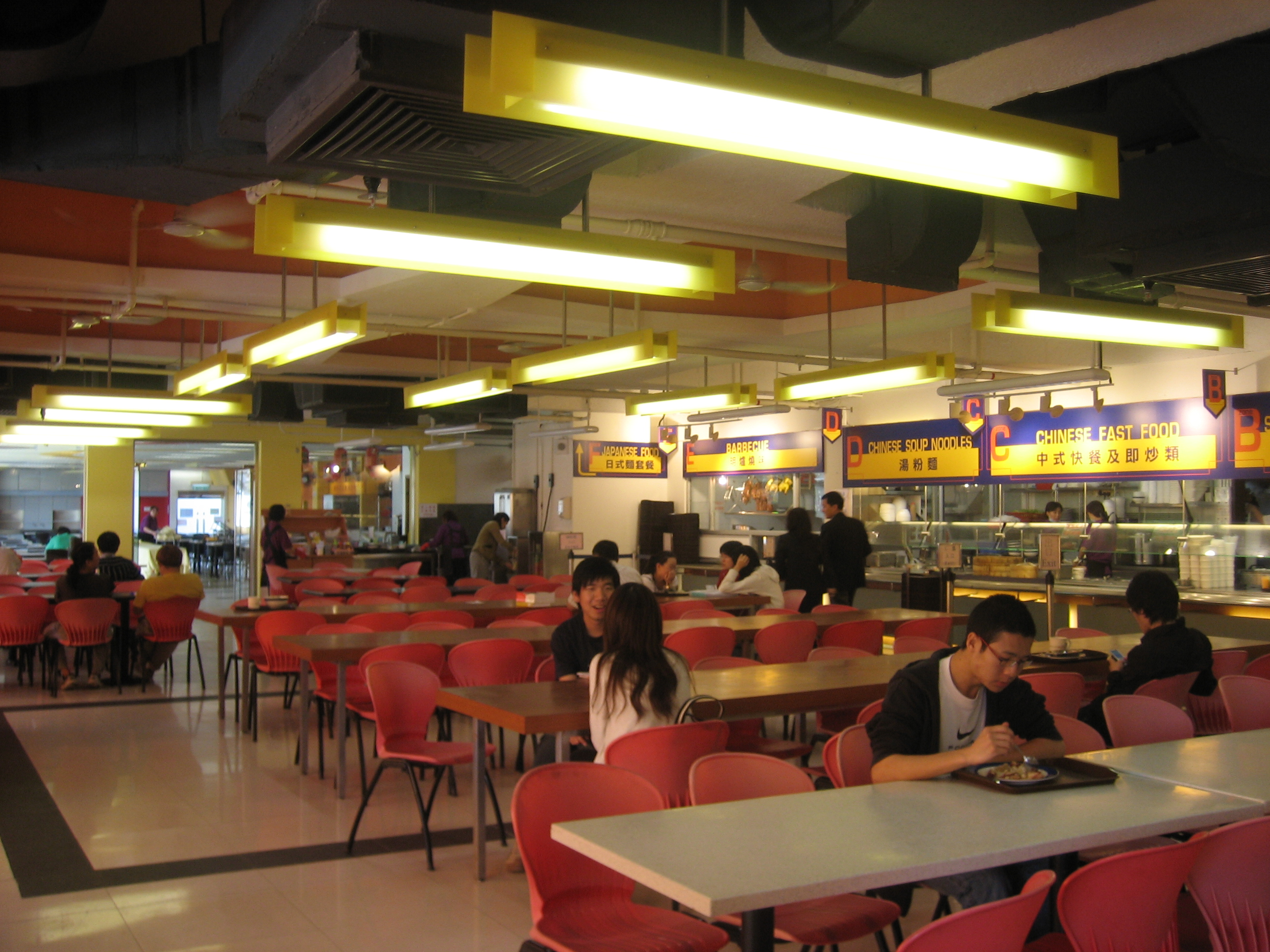 A cafeteria in the Benjamin Franklin Centre, Chinese University of Hong Kong.